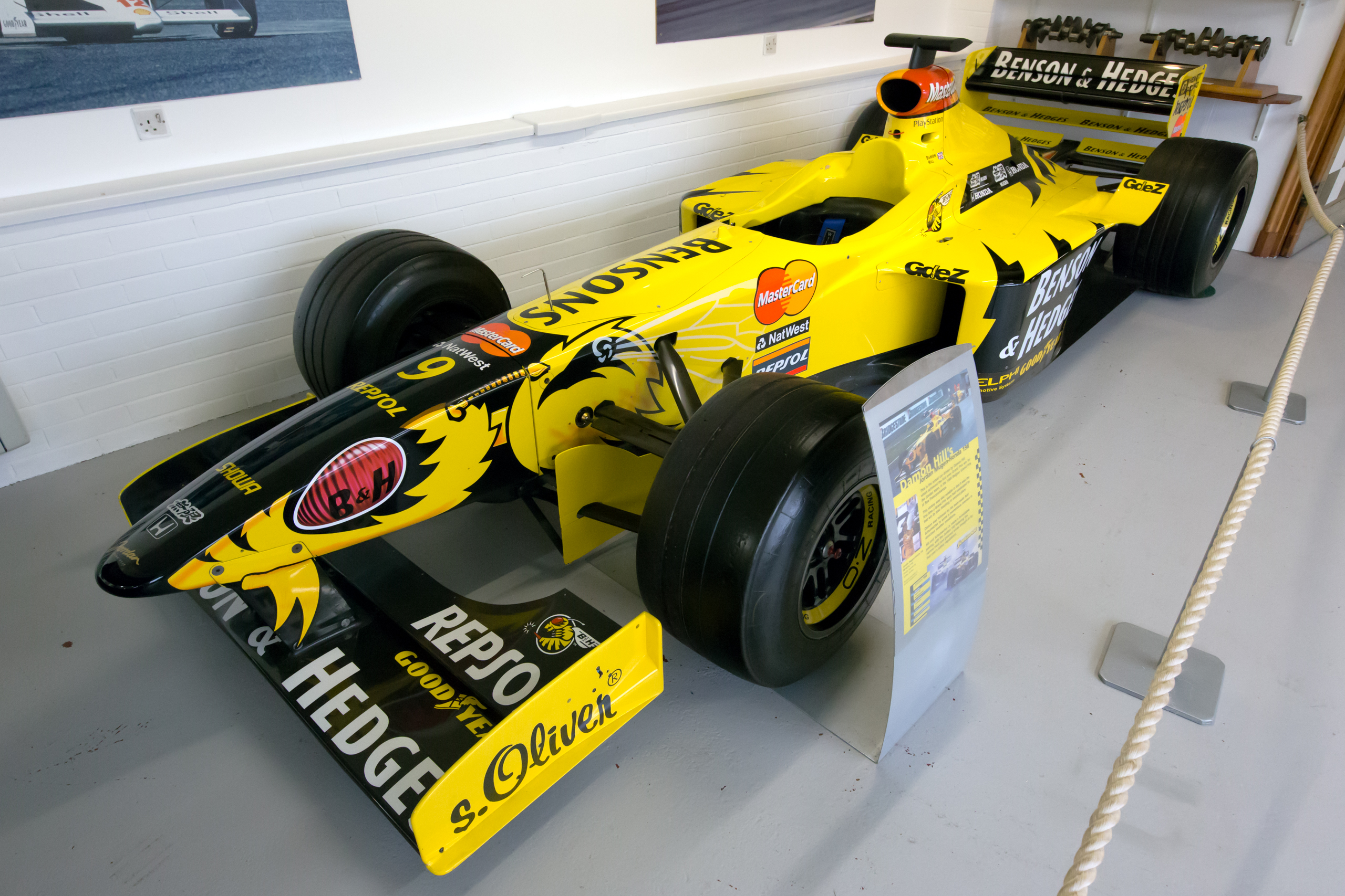 1998 Jordan 198 (#9 Damon Hill)